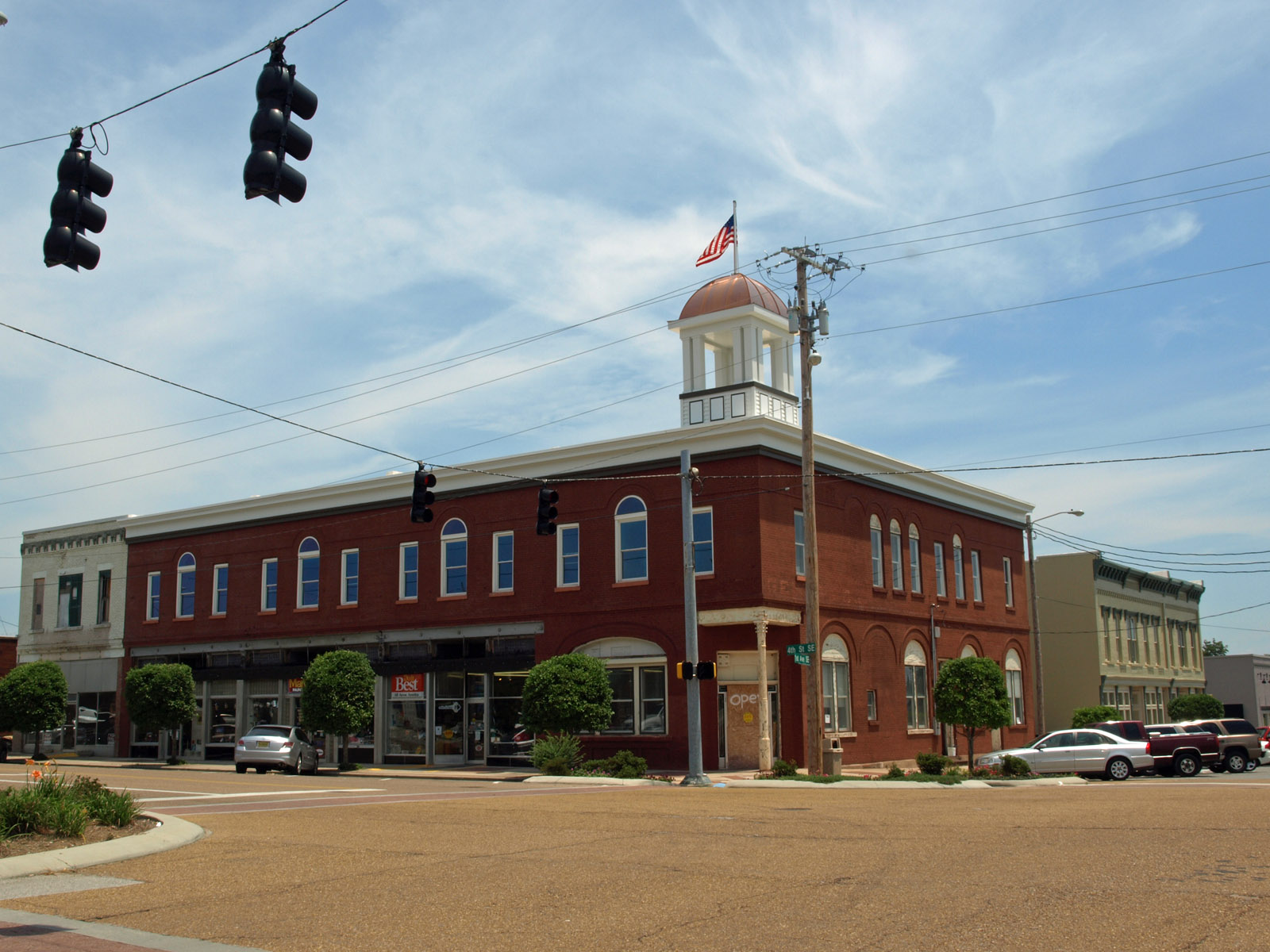 401 1st Avenue SE in Cullman, Alabama, part of the Cullman Downtown Commercial Historic District